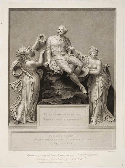 Engraving by Benjamin Smith of Thomas Banks's relief sculpture Shakespeare attended by Painting and Poetry originally placed above the entrance to John Boydell's Shakespeare Gallery in 1789, and re-erected in New Place Garden, Stratford in 1870